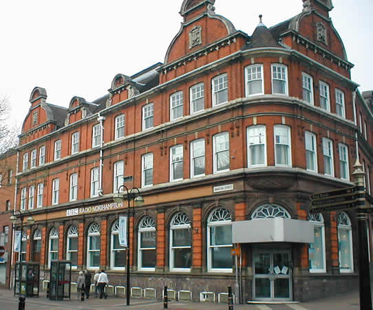 Broadcasting House in Abington Street, Northampton. Home to BBC Radio Northampton. Picture taken by Tom- on April 25, 2004.